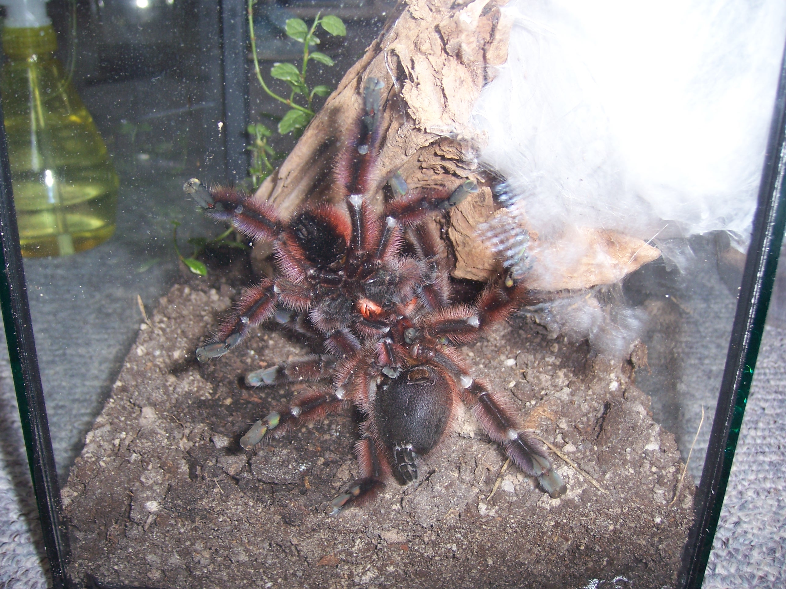 Mating of Caribena versicolor, syn. Avicularia versicolor